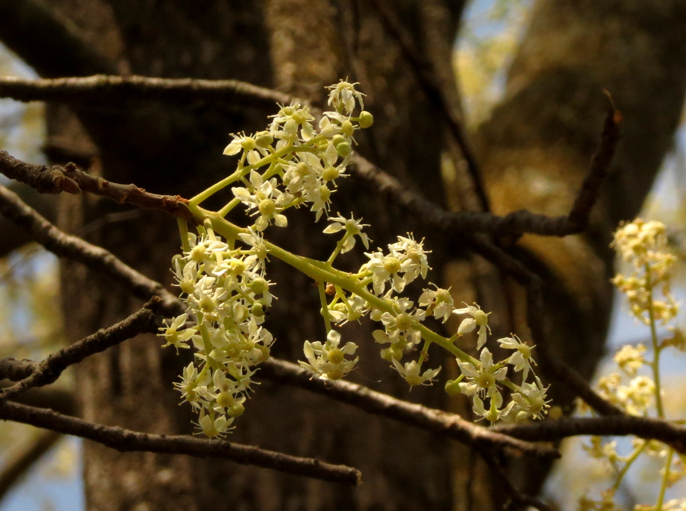 Chloroxylon swietenia seen in Ragihalli forest